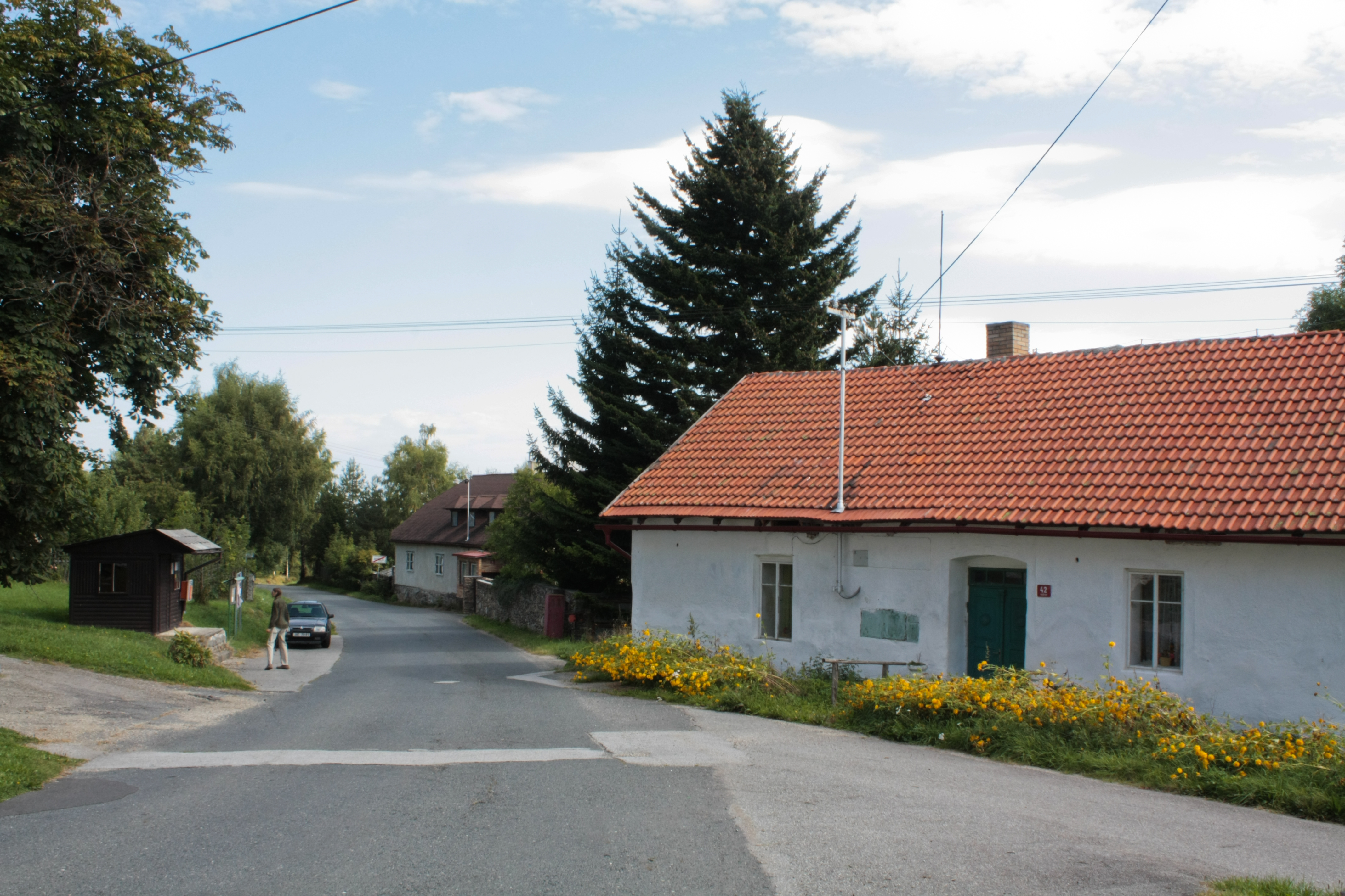 Bošice, Prachatice District, Czech Republic Object location49° 04′ 51″ N, 13° 50′ 41″ E This photograph was taken within the scope of the Czech 'Photo Workshops' grant.